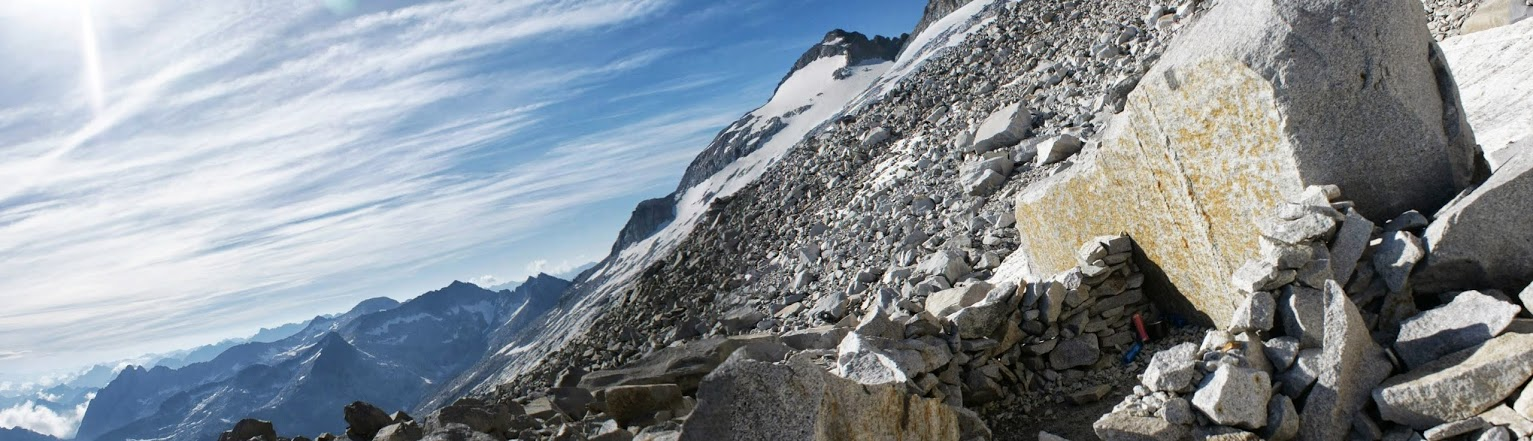 Bivouac shelter with Aneto Peak (3404m) in the background, Pyrenees range